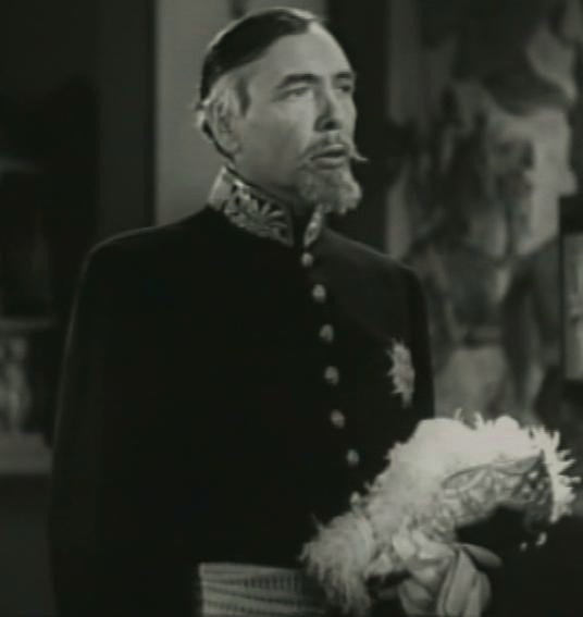 Georges Renavent in The Son of Monte Cristo - cropped screenshot